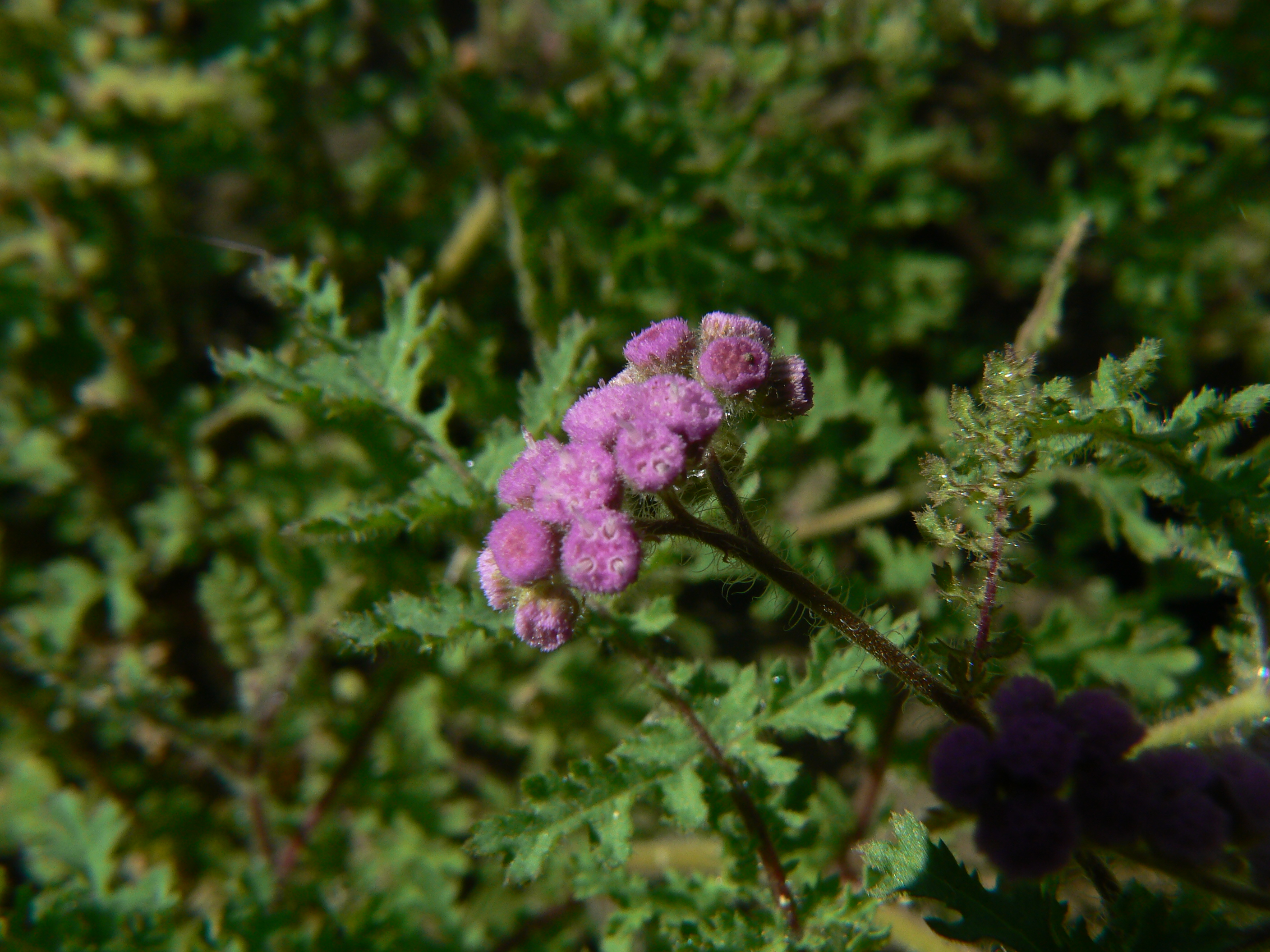 Cyathocline purpurea